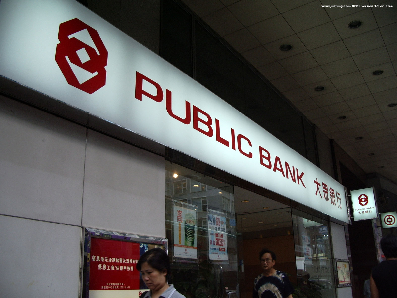 Public Bank Berhad, Hong Kong Branch, Wing On House, Central.